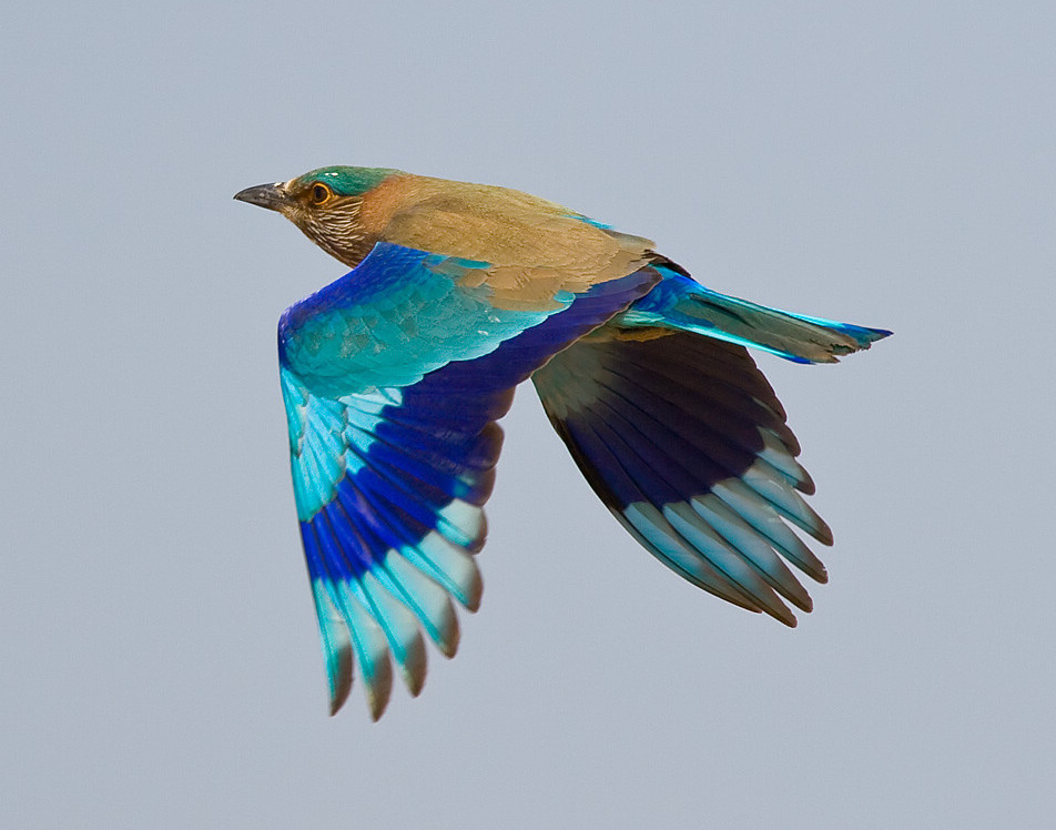 An Indian Roller flying in India.